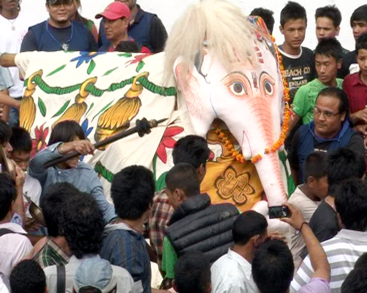 A traditional dance performed during Indrajatra in Nepal.